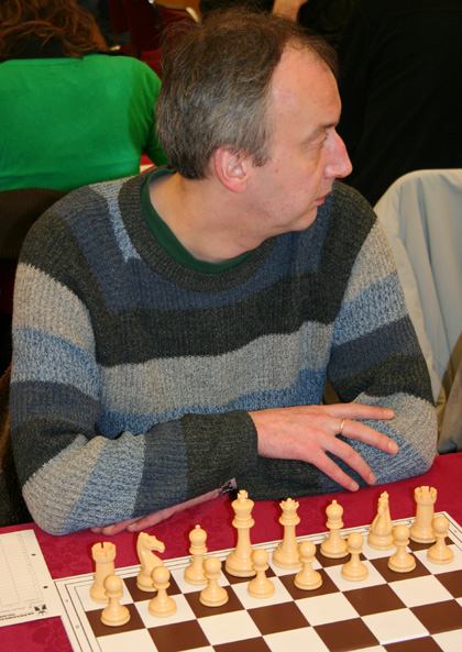 GM Vidmantas Malisauskas, Lithuania